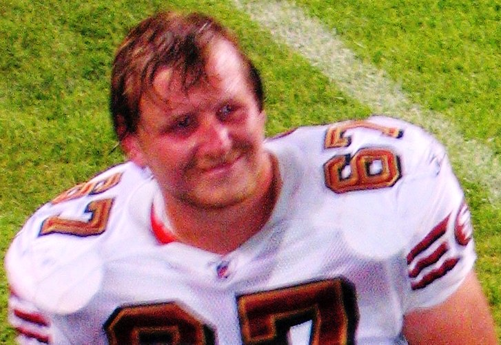 San Francisco 49ers offensive tackle/guard Alan Reuber at the 2008 preseason game against the Chicago Bears